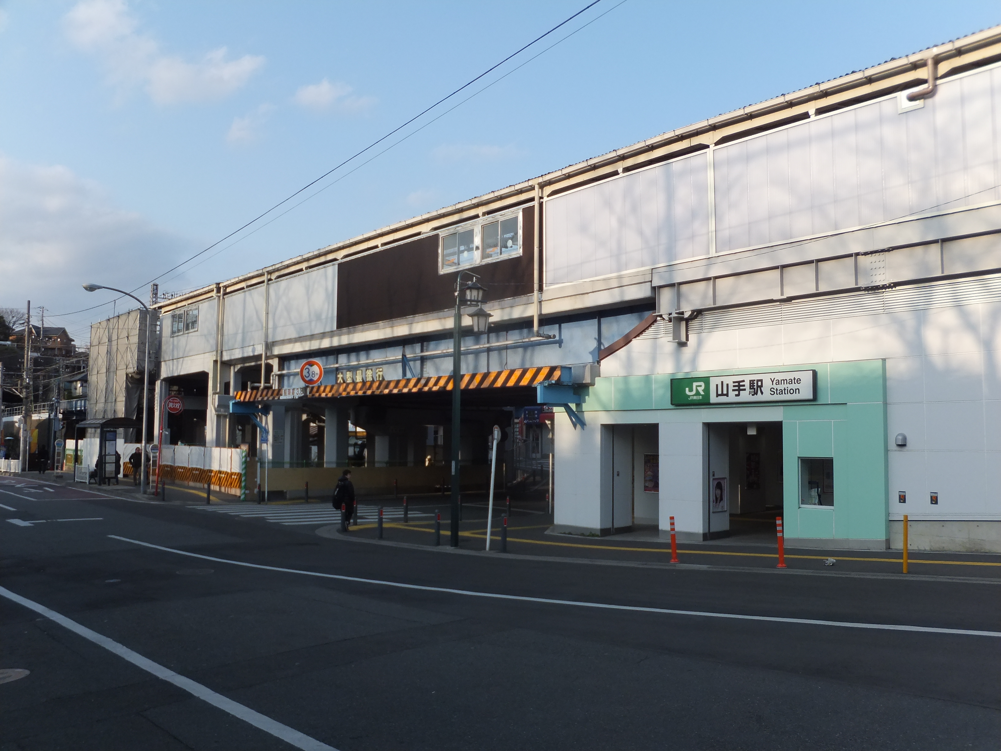 Yamate Station on the Negishi Line, Yokohama, Japan